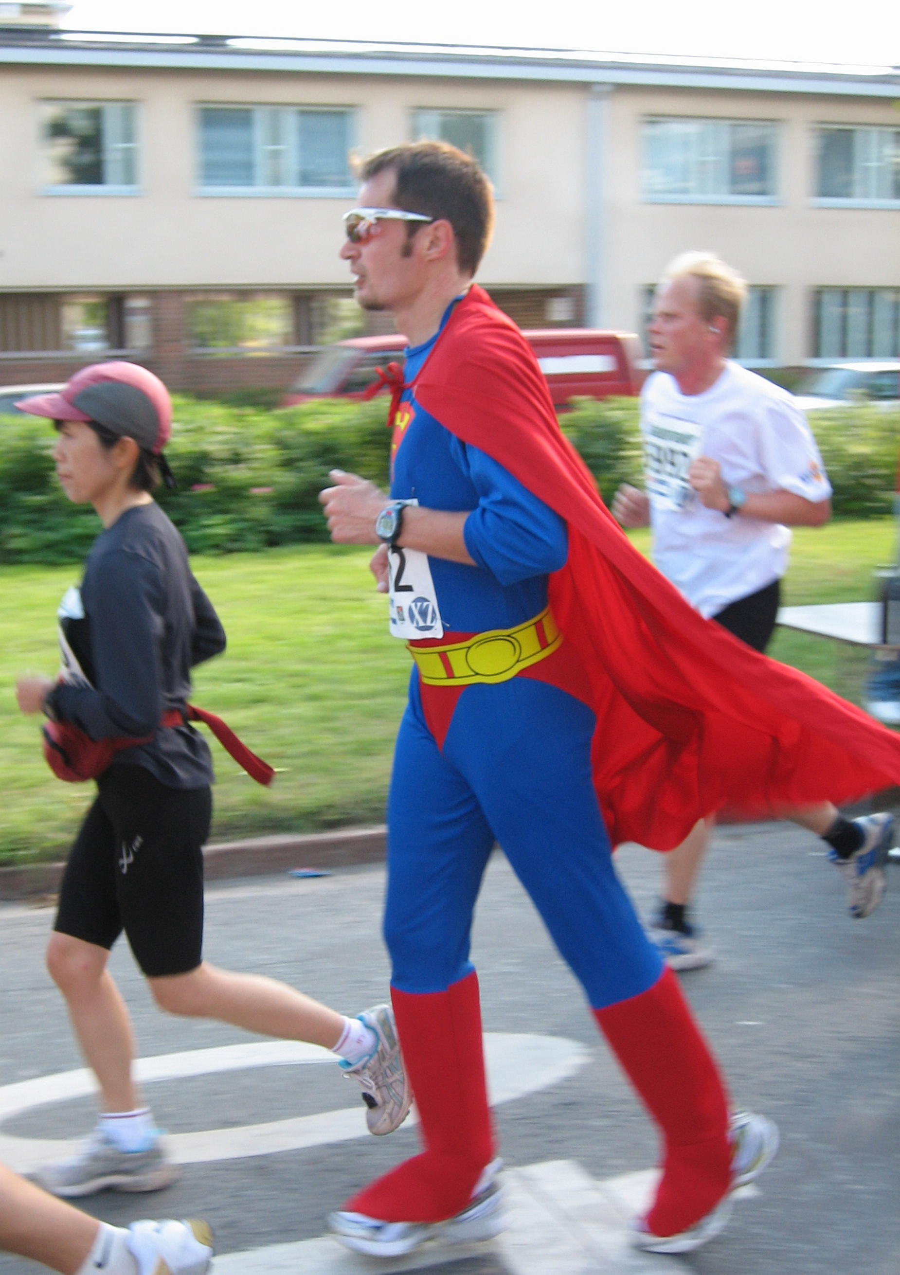 Superman running on Helsinki City Marathon 2007. You don't have to be a Superman to win the Helsinki City Marathon, but it may help. The Helsinki City Marathon is an annual event with more than 6,000 runners and 50,000 watchers.